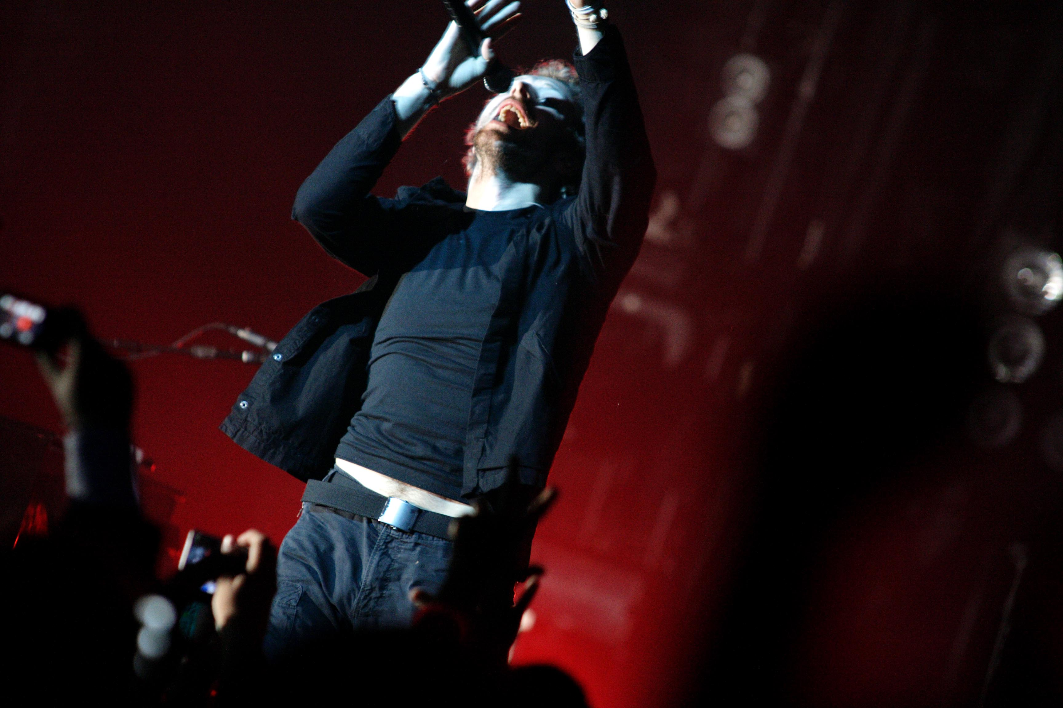 Chris Martin Live.